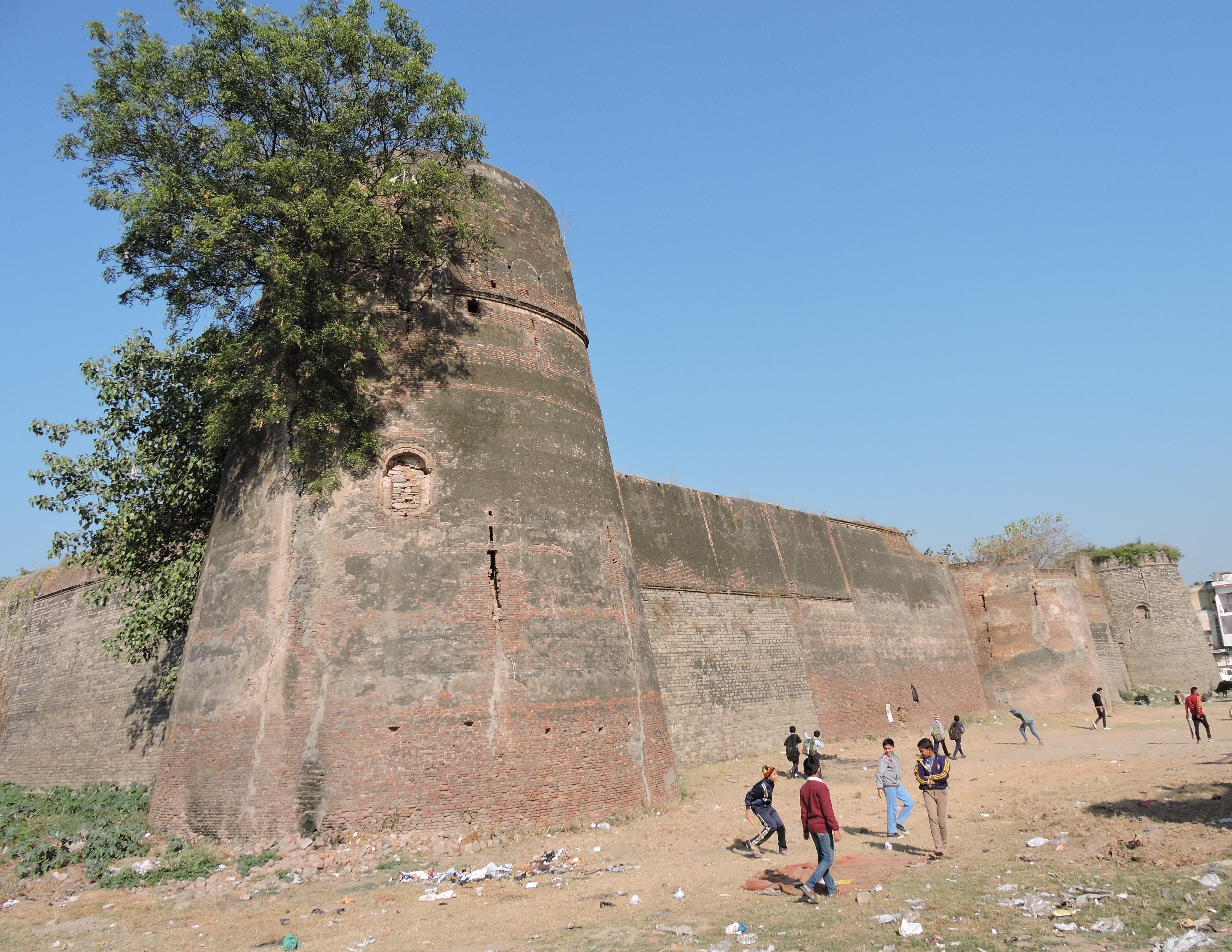 Mani Majra Fort, Sector 13, Chandigarh, India